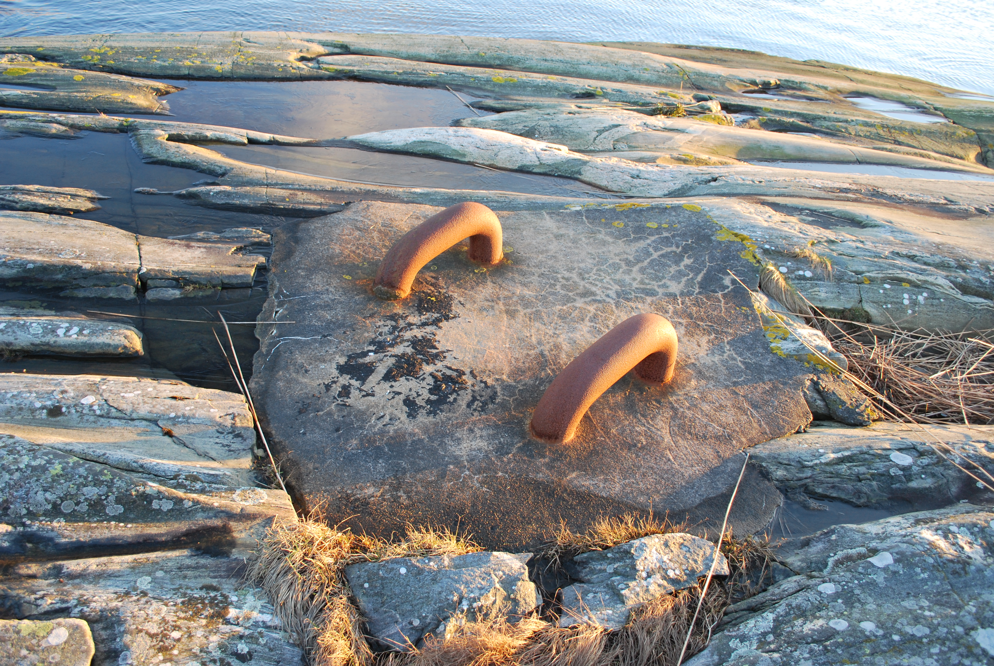 Förtöjningsanordning Svartebergen i Hälleviken